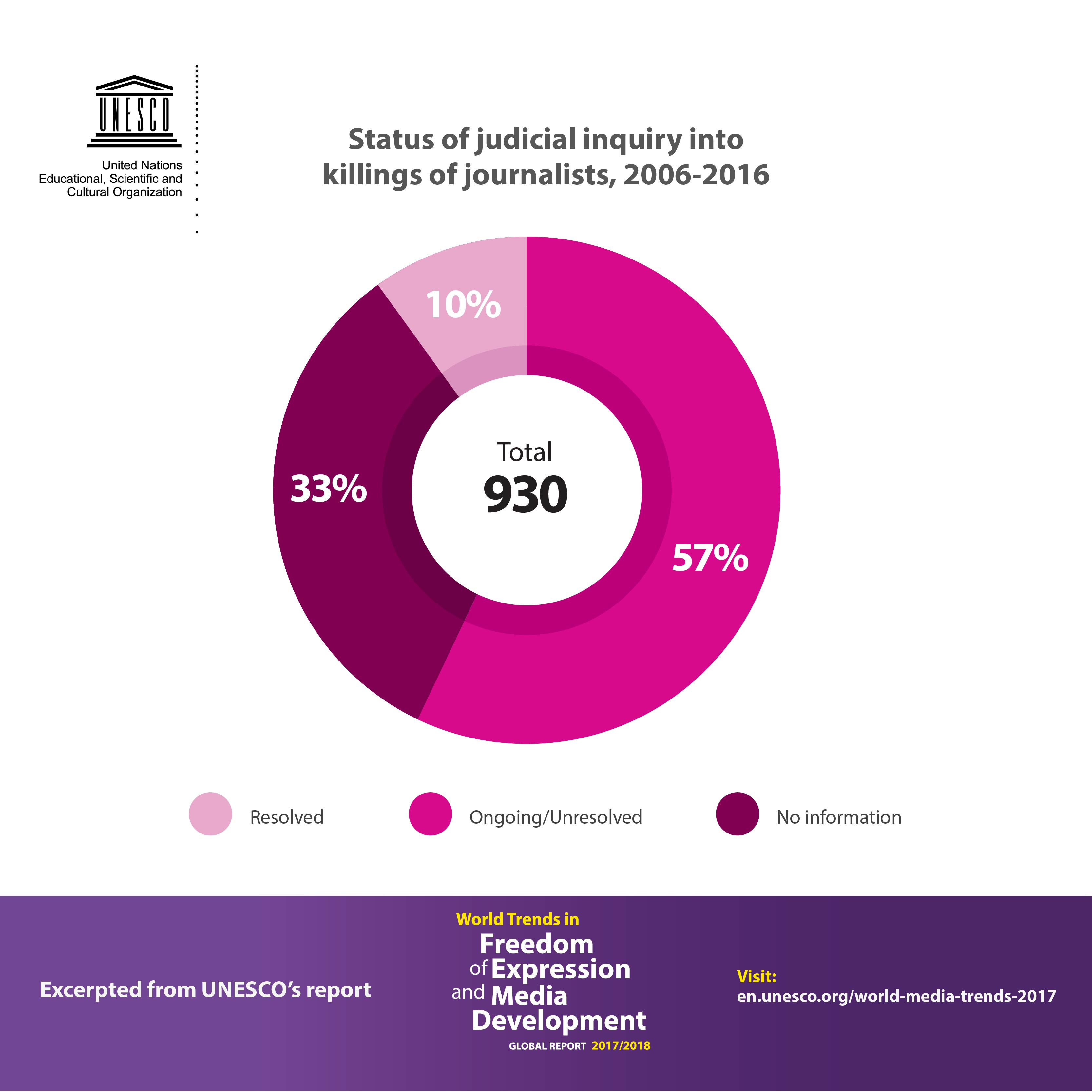 Status of Judicial inquiry into killings of journalists from 2006 to 2016